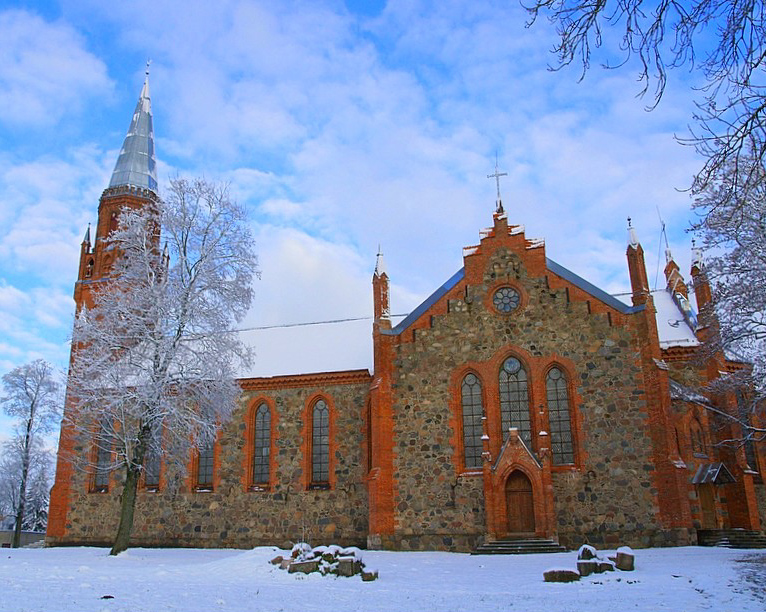 Viljandi, Estonia: St.Paul's church